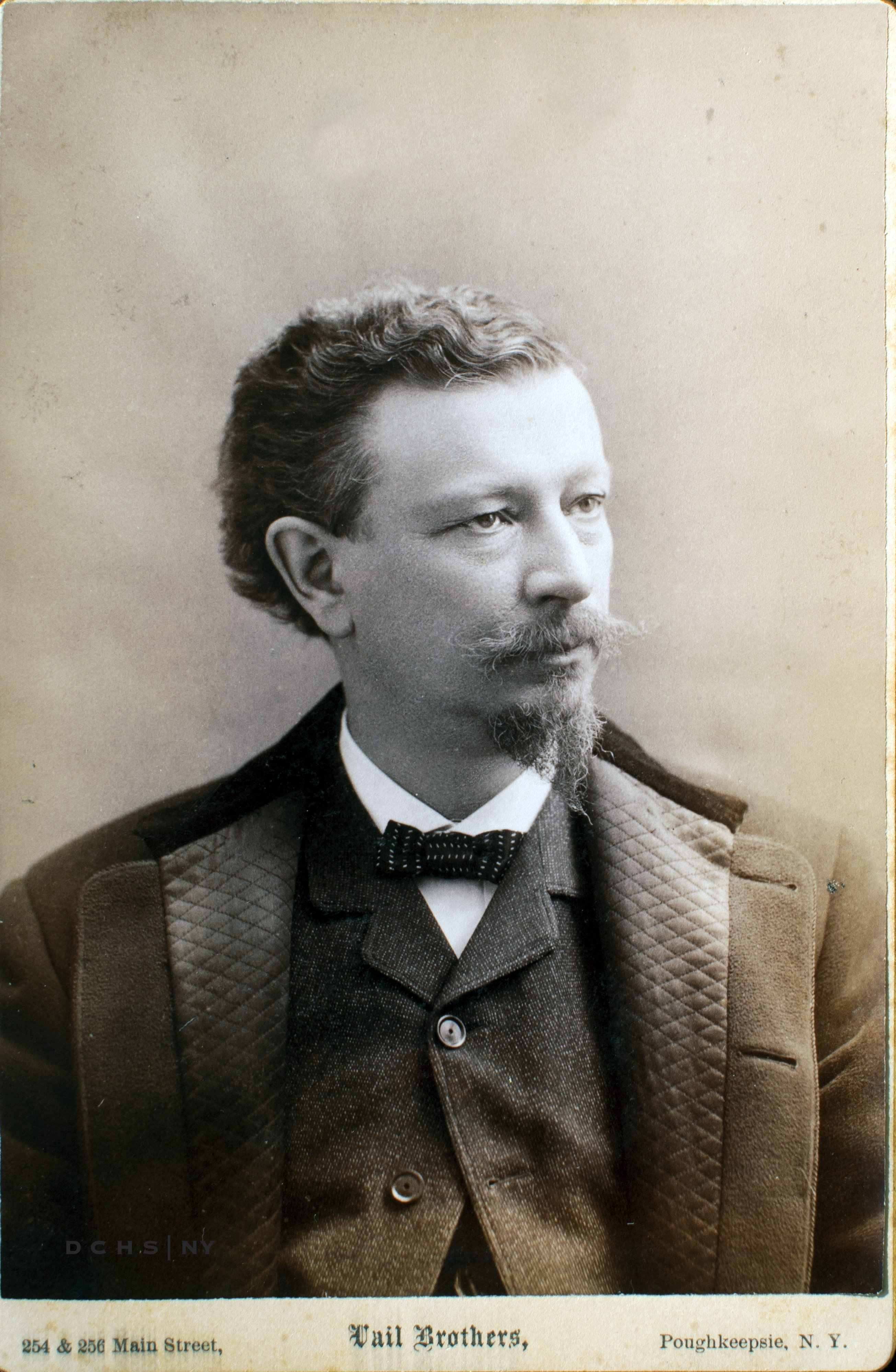 From a series of Vail Brothers photographs of Vassar College Professors, c. 1877.